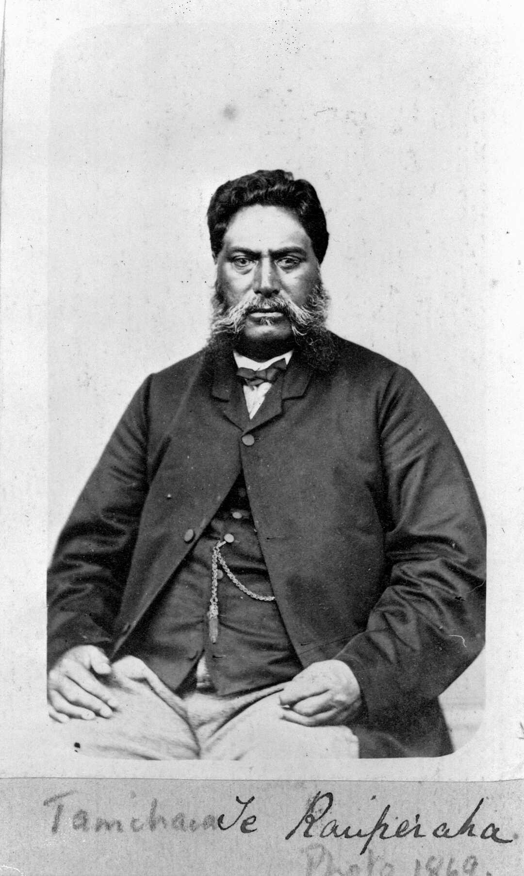 Tamihana Te Rauparaha, 1869 Reference Number: 1/2-021822-F Formal seated portrait of Tamihana Te Rauparaha, taken by an unknown photographer in 1869. Key terms: 1 image, categorised under Portraits, related to Tamihana Te Rauparaha, Ngati Raukawa ki te Tonga, Ngati Toa and Maori. Part of: Tamihana Te Rauparaha, Reference Number 1/2-021822-F (1 digitised items) Extent: 1 b&w original negative(s)Vertical imageSingle negative Conditions governing access to original: Not restricted Other copies available: File print available in Turnbull Library Pictures920. Te Rauparaha, Tamihana. 1869(PFP-017160) Inscriptions: Inscribed - Photographer's title on negative - beneath image: Tamihana Te Rauperaha [sic] Photo 1869 Usage: You can search, browse, print and download items from this website for research and personal study. You are welcome to reproduce the above image(s) on your blog or another website, but please maintain the integrity of the image (i.e. don't crop, recolour or overprint it), reproduce the image's caption information and link back to here ( If you would like to use the above image(s) in a different way (e.g. in a print publication), or use the transcription or translation, permission must be obtained. More information about copyright and usage can be found on the Copyright and Usage page of the NLNZ web site.